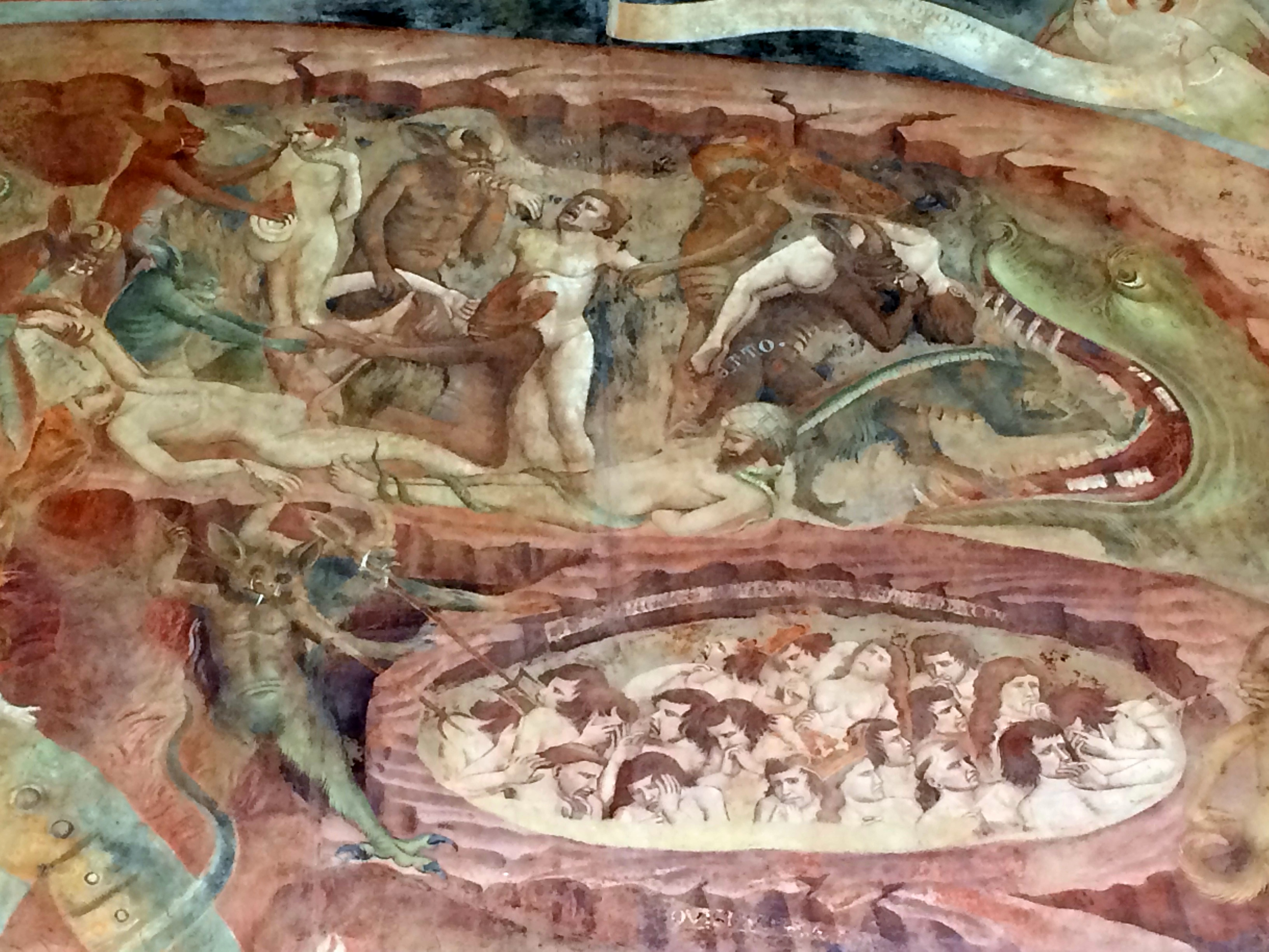 Camposanto monumentale of Pisa, Italy. Fresco of Hell. Detail: damned persons, on right side of the fresco.